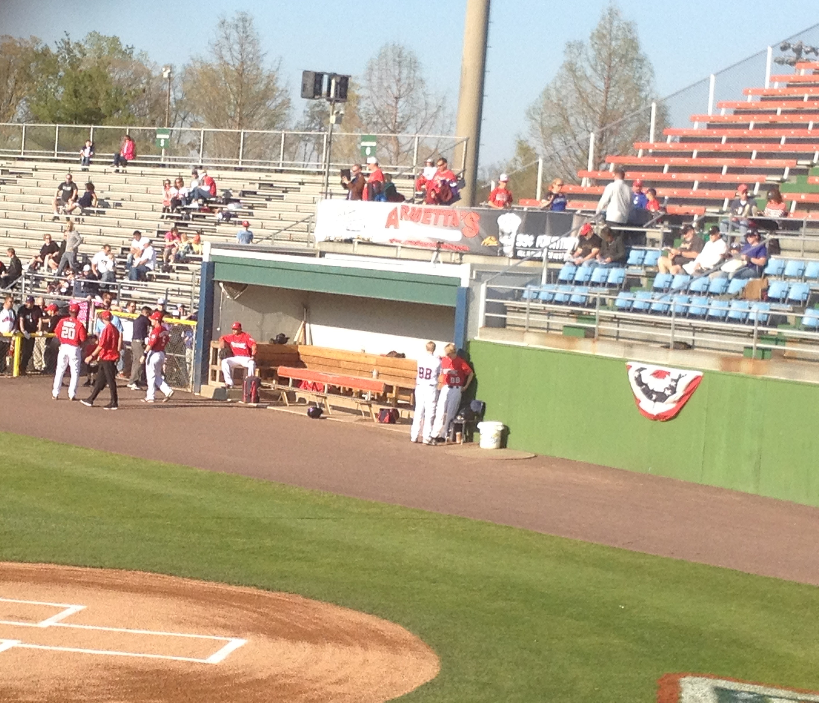 The unique above ground dugouts at Pfitzner Stadium